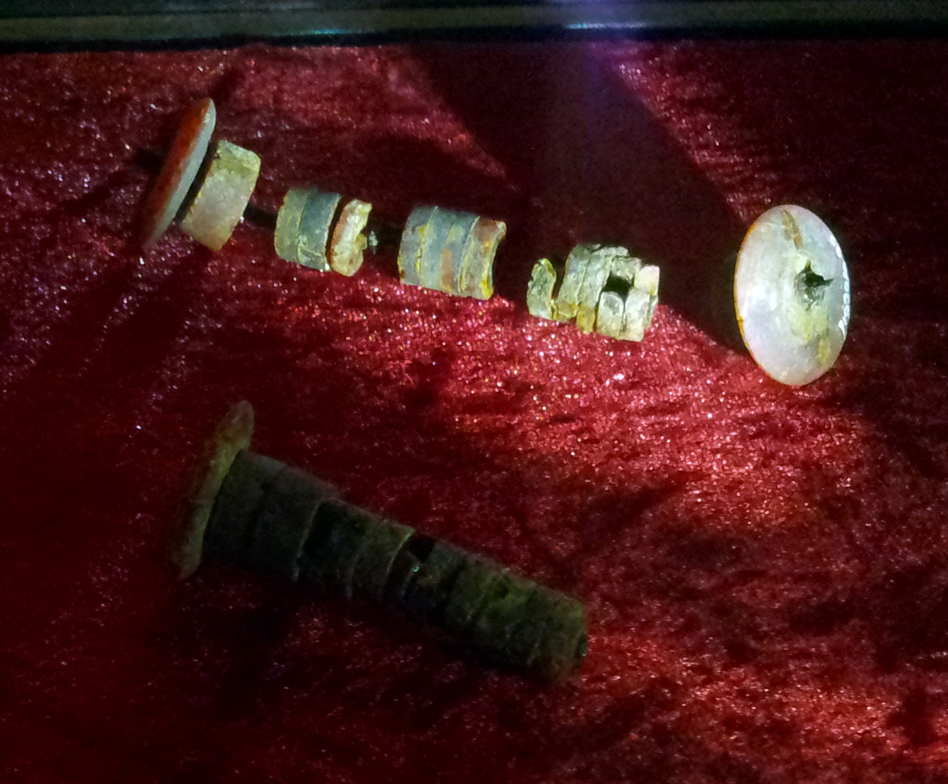 Ancient Roman distaffs made of amber, found in 1 of 4 sarcophagi excavated in 1920 in Heerlen, the Netherlands, now in the collection of the Rijksmuseum van Oudheden in Leiden. Photographed as part of an exhibition "Schatten van Heerlen" (Treasures from Heerlen) in the Thermenmuseum in Heerlen in 2015.